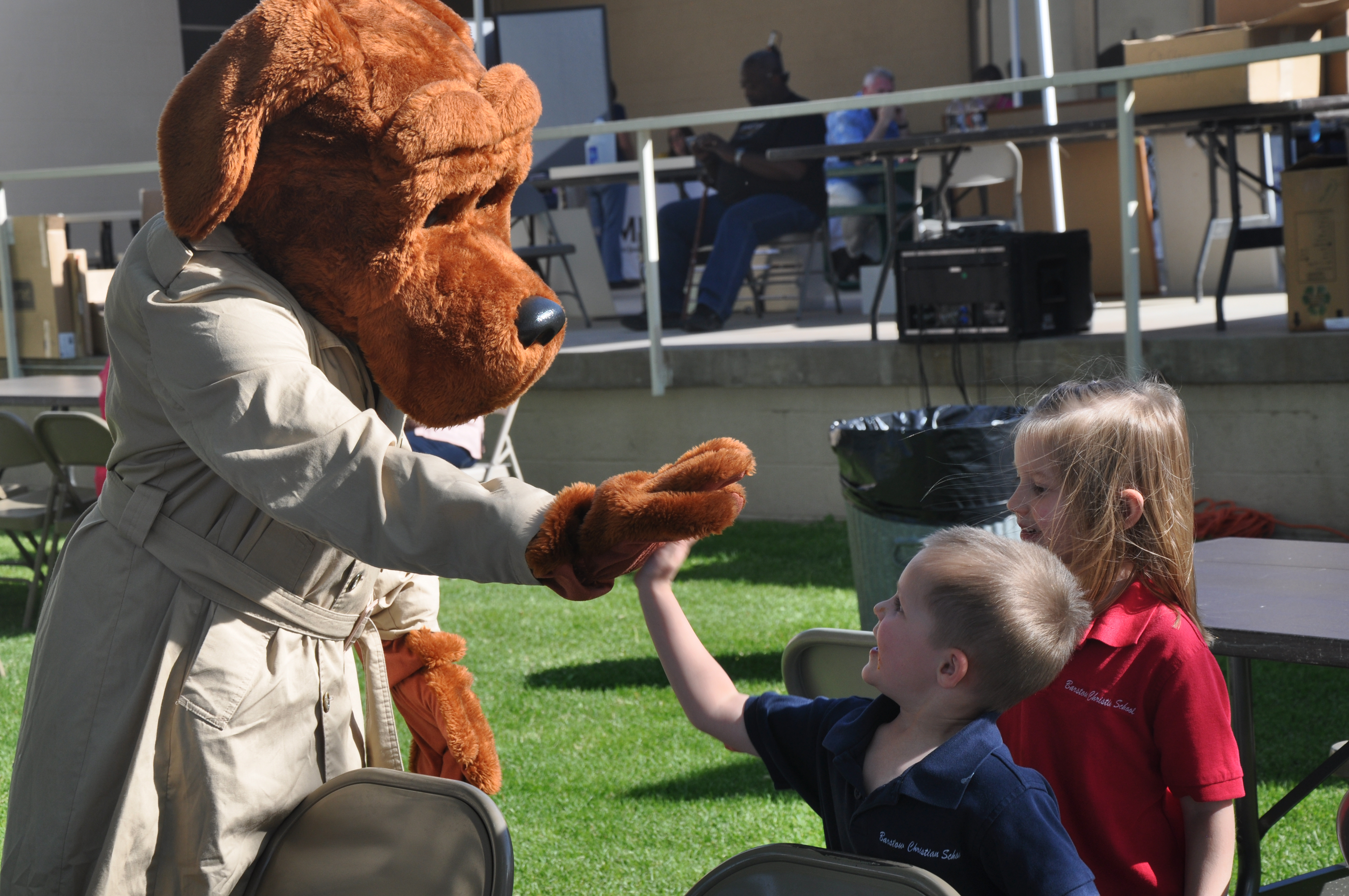 Robert and Regan Smith, children of Amanda Smith, a contracting specialist on Marine Corps Logistics Base Barstow, Calif., high-five McGruff the Crime Dog at the base's Earth Day event at McTureous Hall, April 11. The event was held to educate people on environmental threats in the High Desert.